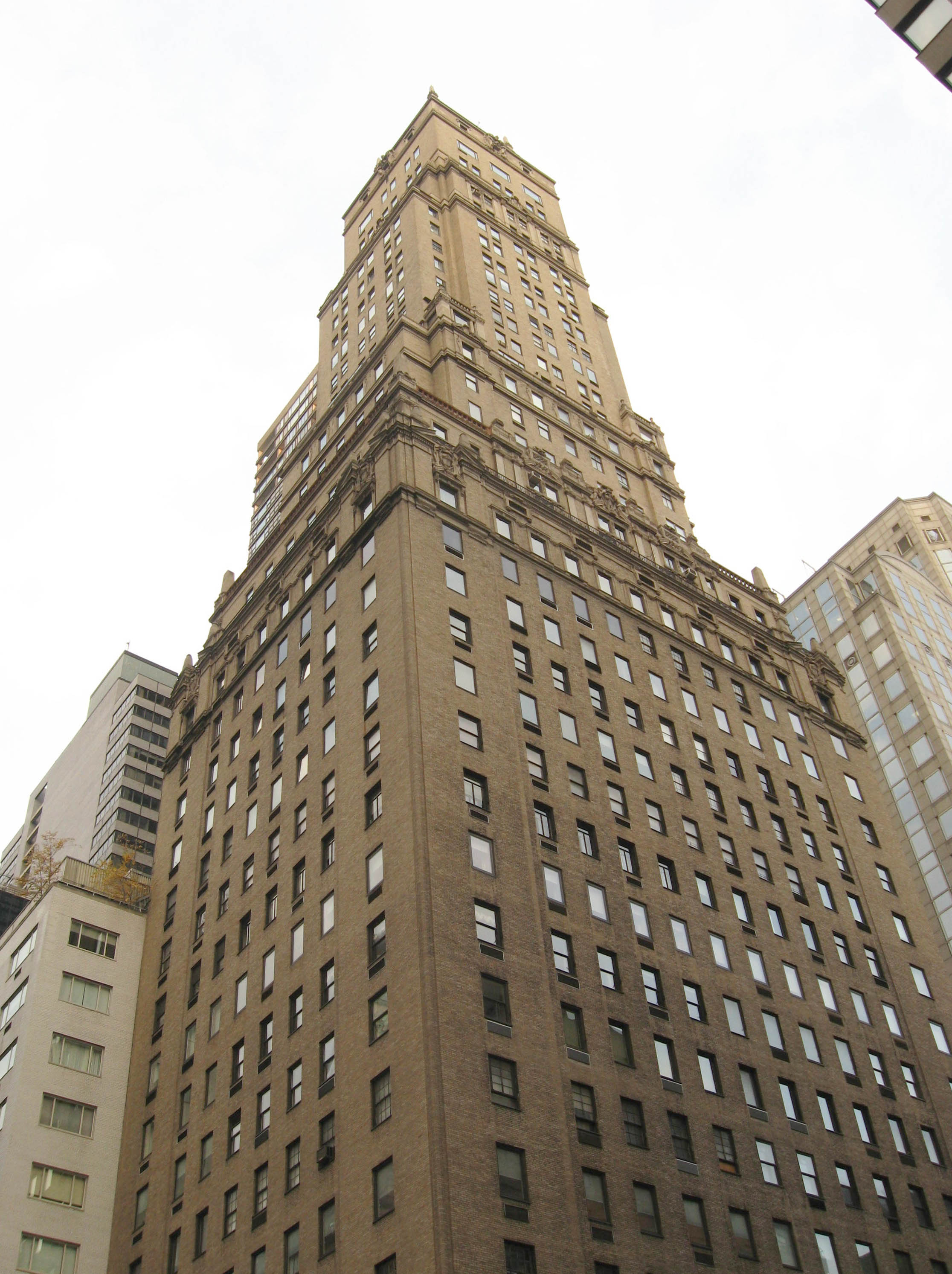 Looking east down 57th Street and across Park Avenue at the Ritz Tower on a cloudy afternoon. NYCLPC designation 2002, map 11.